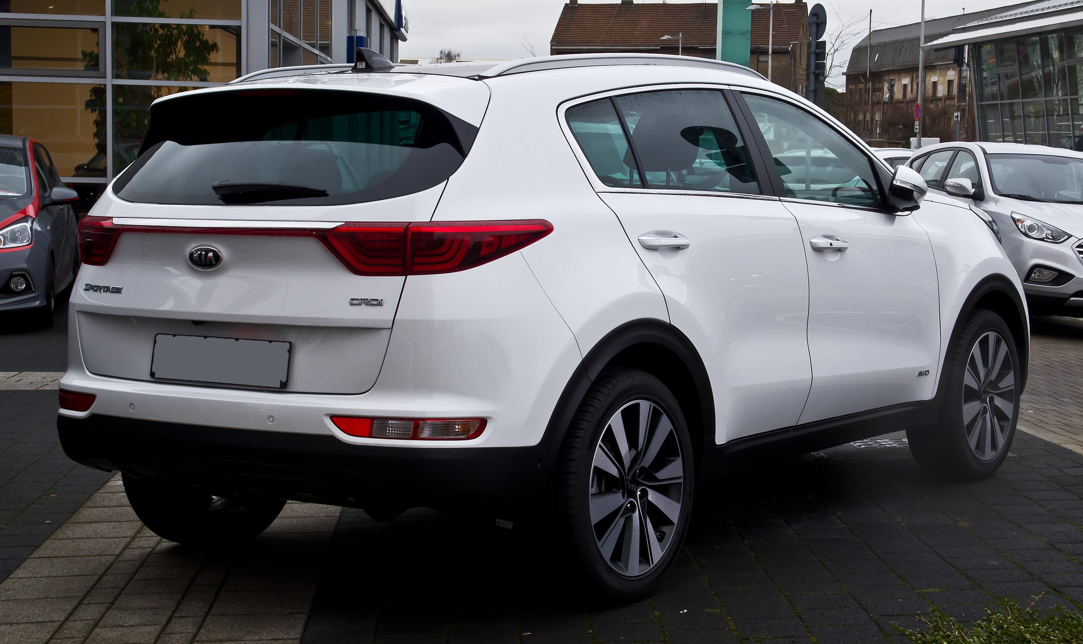 Kia Sportage 2.0 CRDi AWD Platinum Edition (IV)